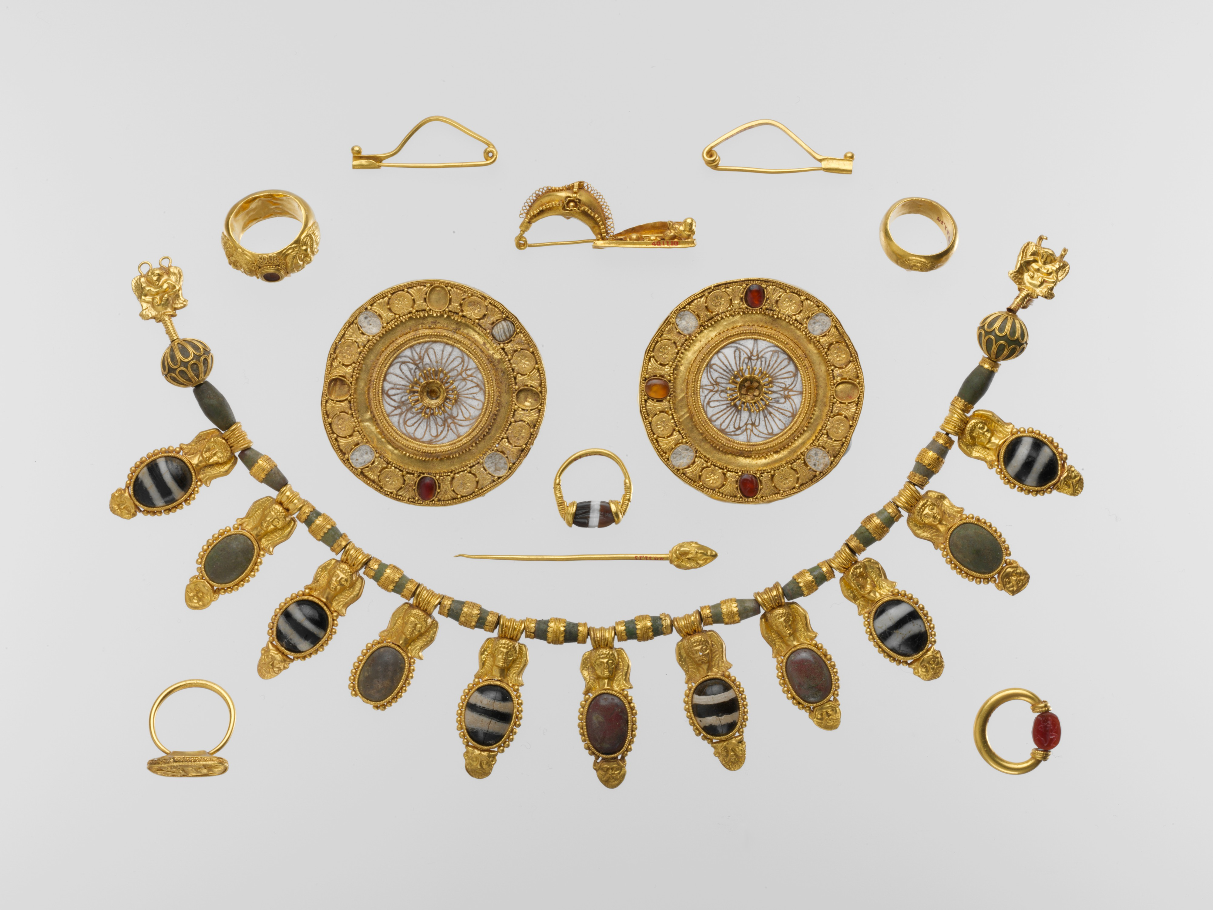 Etruscan; Set of jewelry; Gold and Silver